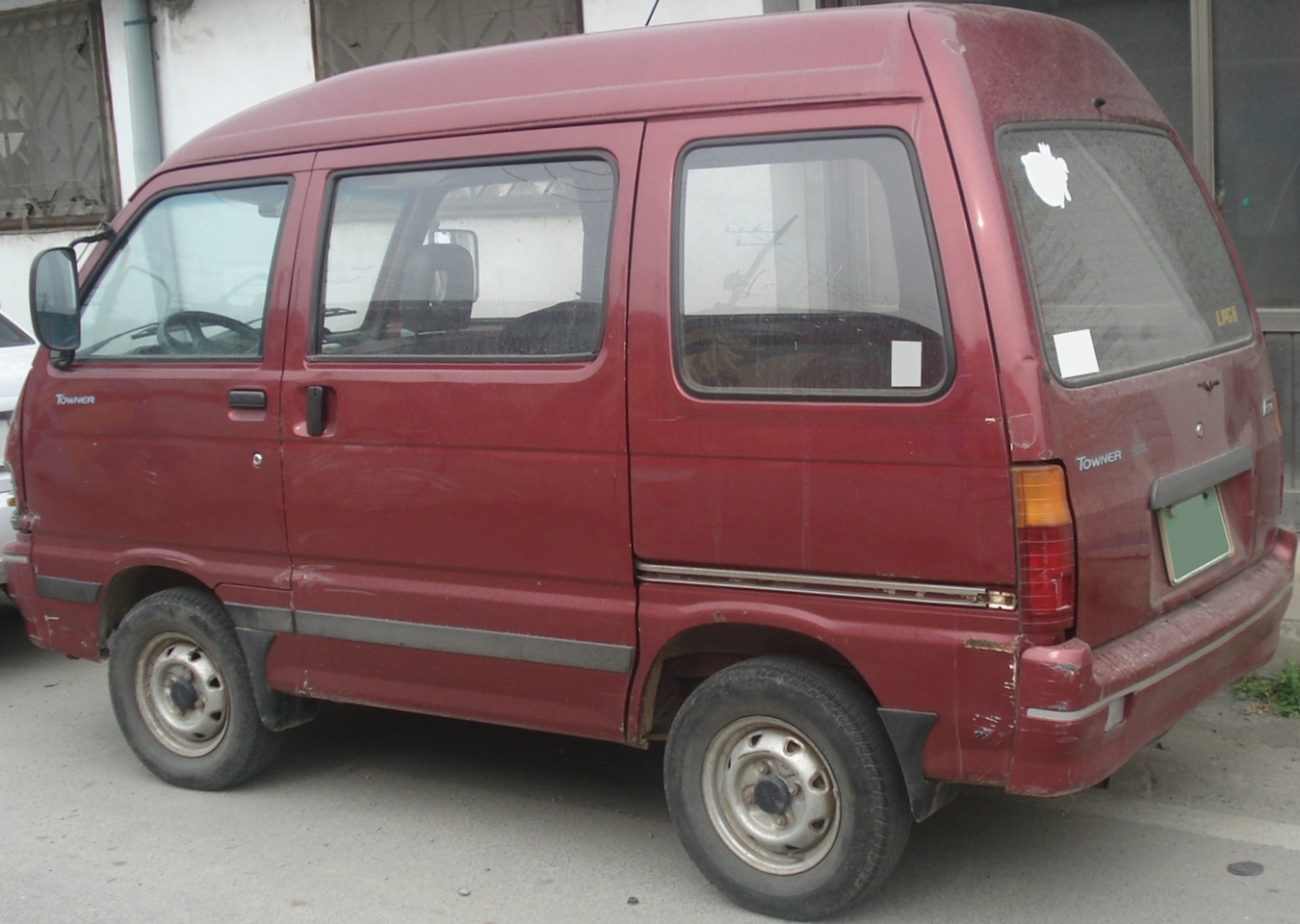 Kia Towner